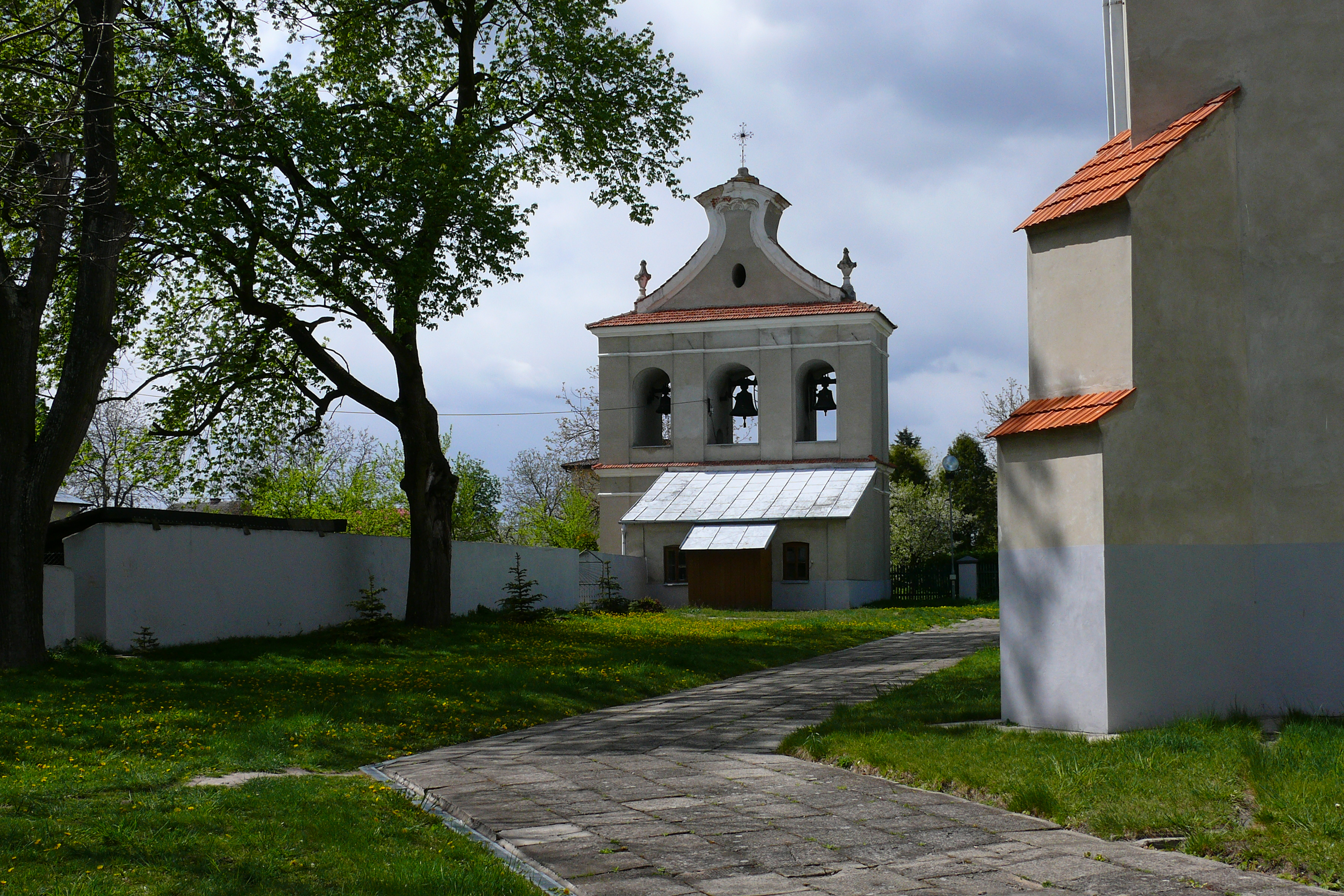 Bell tower in Solec nad Wisłą